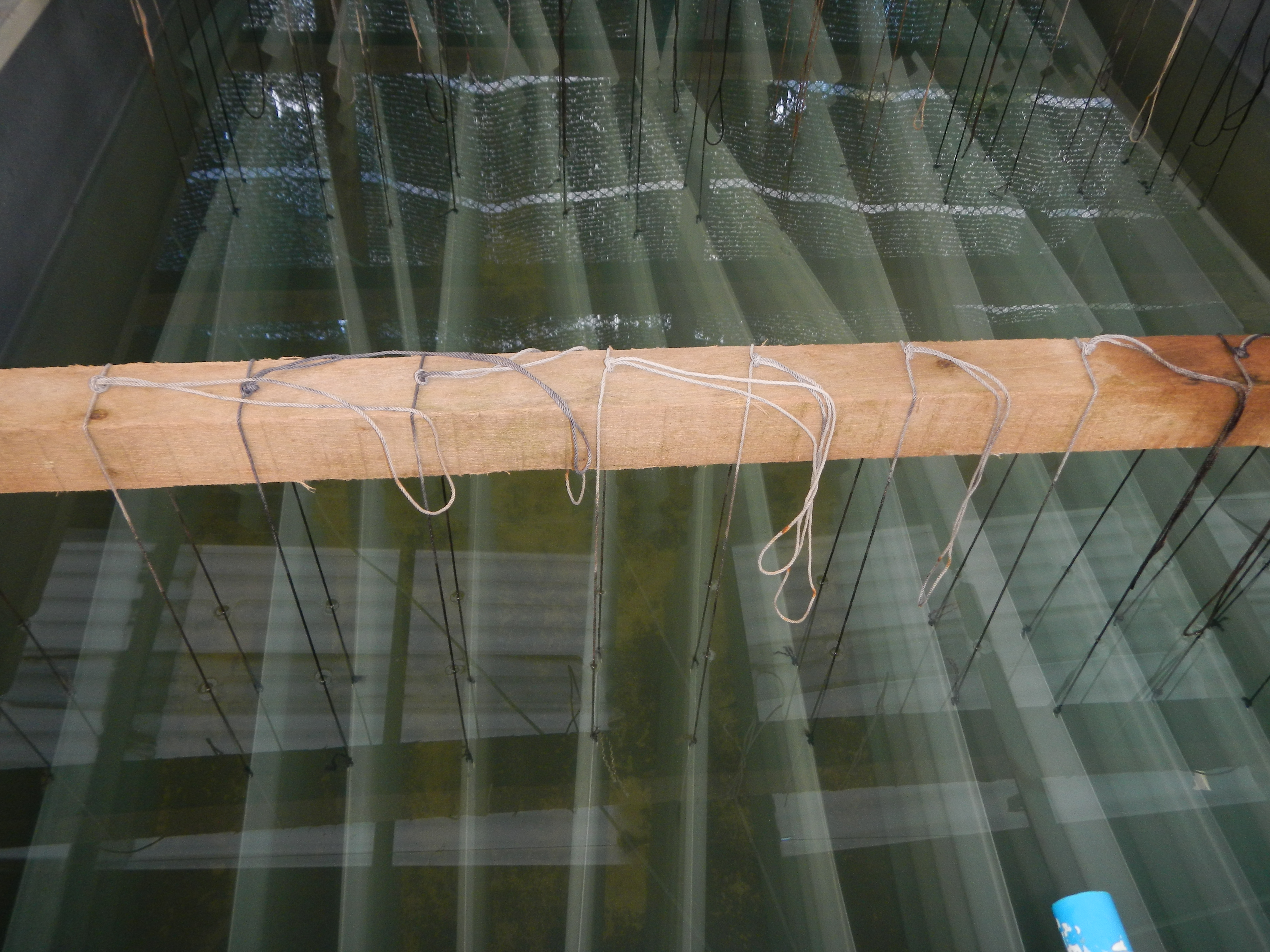 Multi-Species Fish and Invertebrate Breeding and Hatchery, (Oceanographic Marine Laboratory in Alaminos) Lucap, Alaminos, Pangasinan[1] Department of Agriculture, Bureau of Fisheries and Aquatic Resources, Regional Mariculture Technodemo Center (RMaTDeC) - April 20, 2011